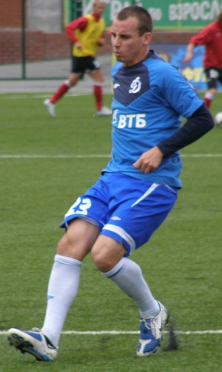 Luke Wilkshire warming up for FC Dinamo Moscow